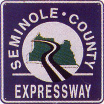 This is the former logo for the Seminole County Expressway. It is now signed with a State Road 417 shield. Image:Seminole County Expressway.jpg is a lower-quality photo of a shield; note that it is more bluish than this one.